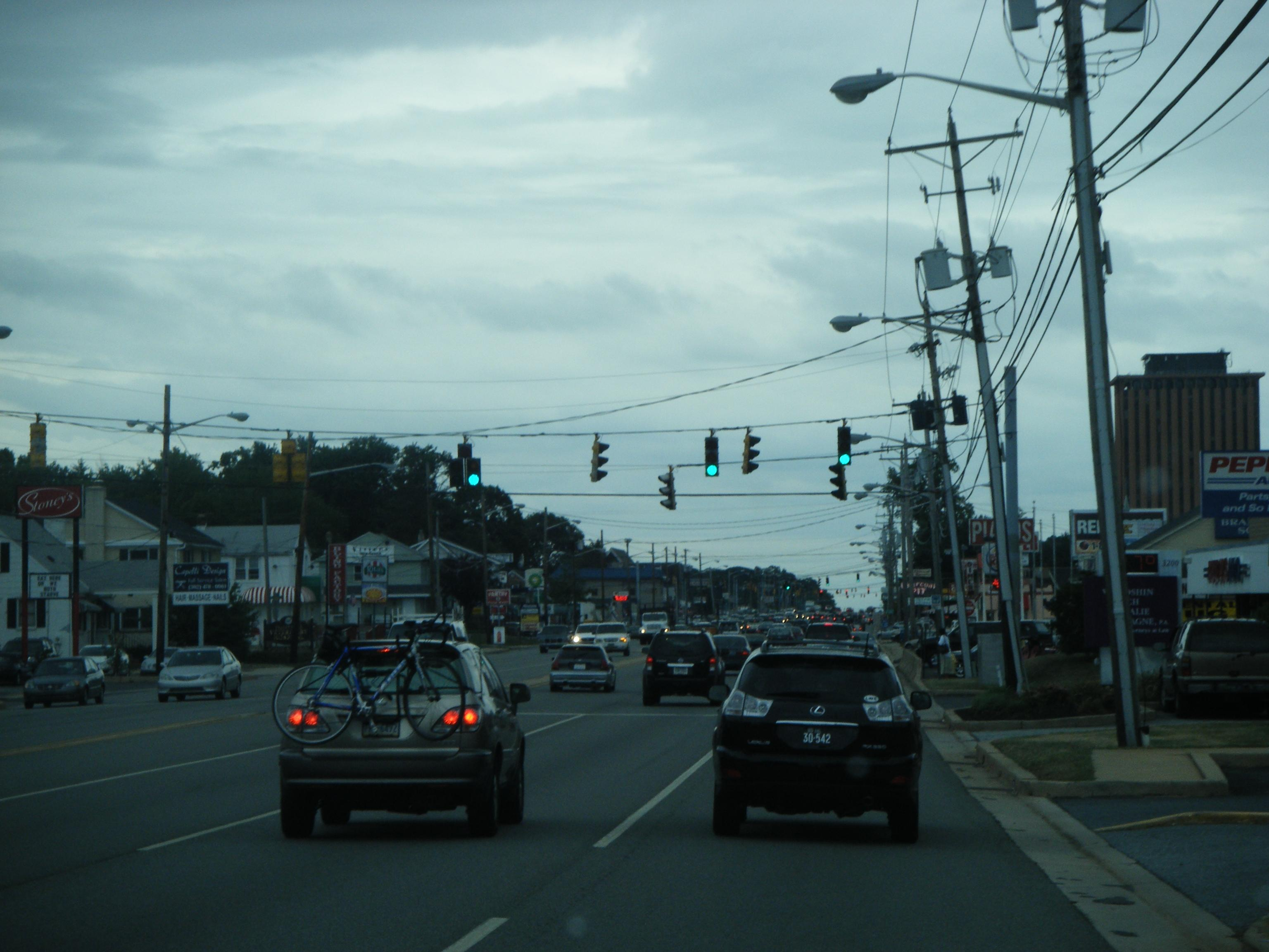 Southbound U.S. Route 202 (Concord Pike) at the intersection with Cleveland Avenue near Wilmington, Delaware.